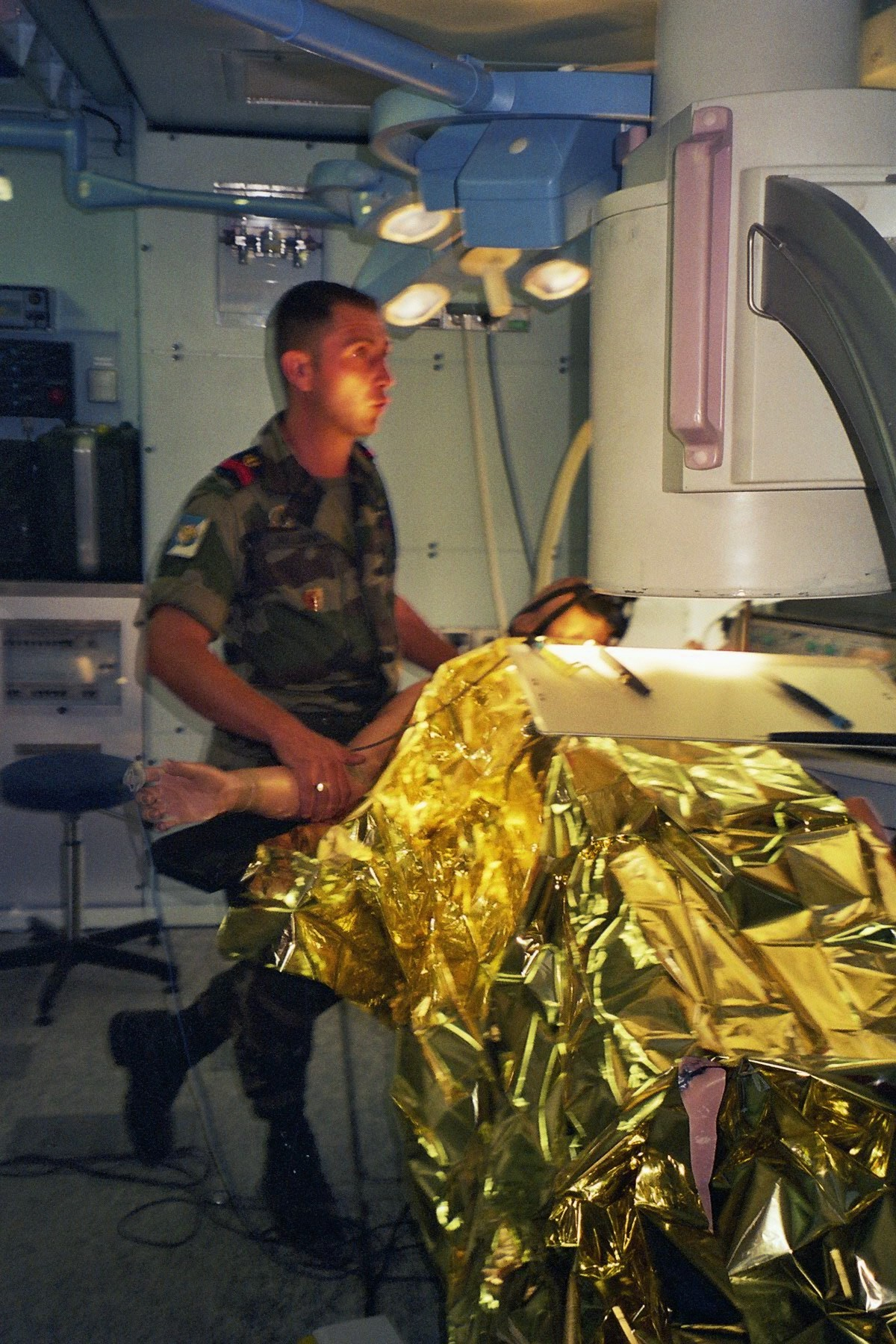 Nation/Defense days, Esplanade des Invalides, Paris, France, September 24-25, 2005